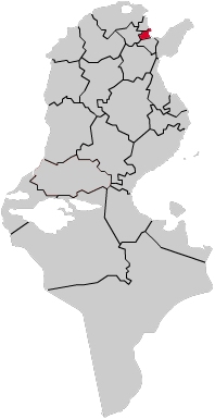 Map of Tunisia with highlighted Tunis Governorate